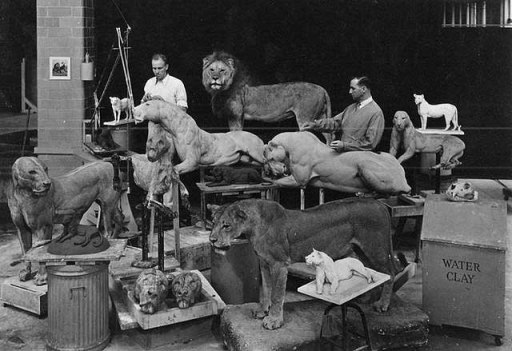 Carl Akeley preparing lions for "lions" diorama